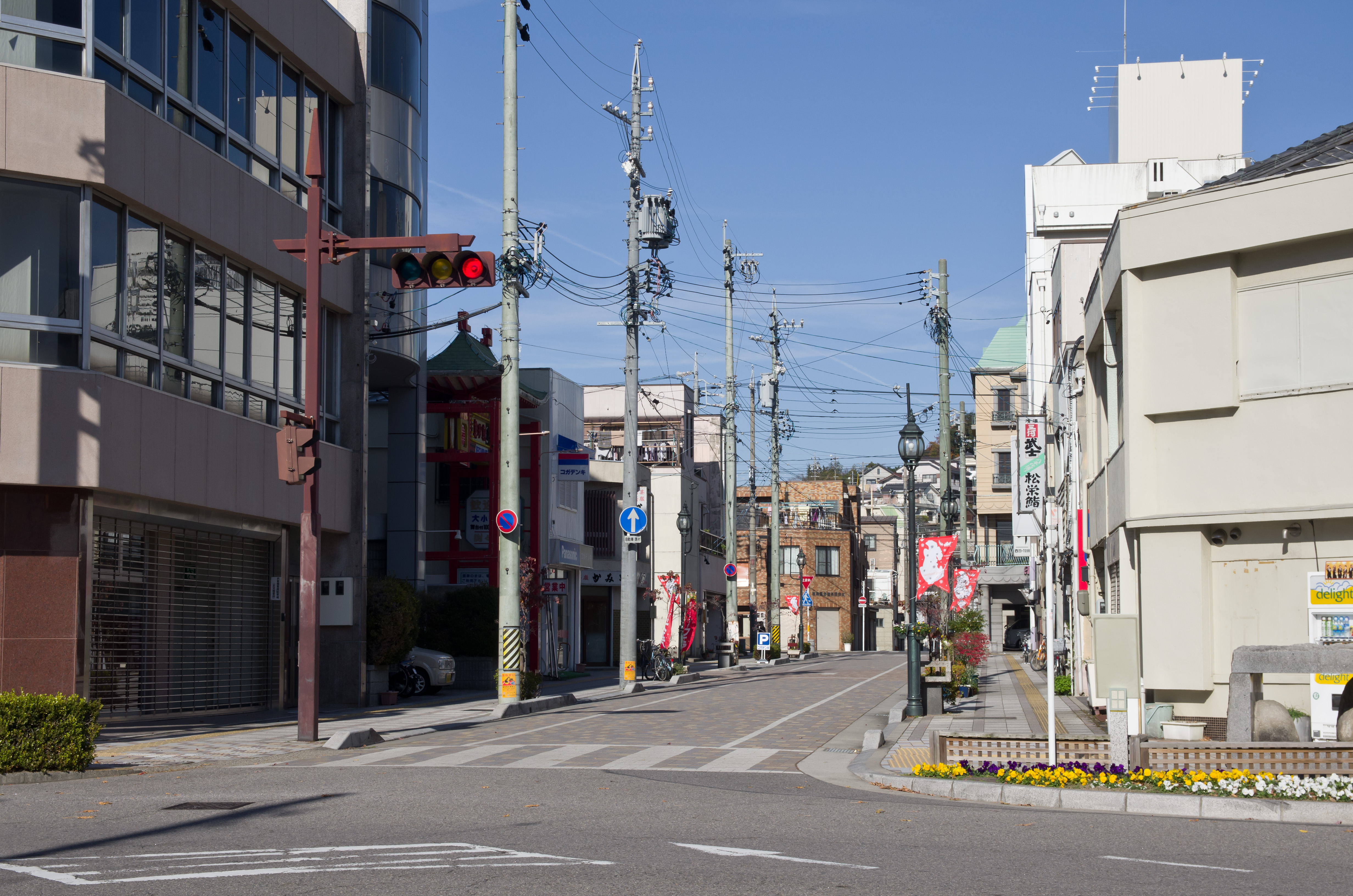 Yachiyo-dori Ave. in Okazaki, Aichi, Japan